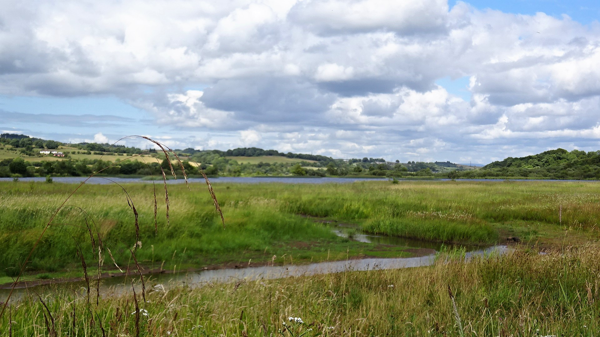 Castle Semple Loch RSPB Nature Reserve, Lochwinnoch, East Renfrewshire, Scotland.